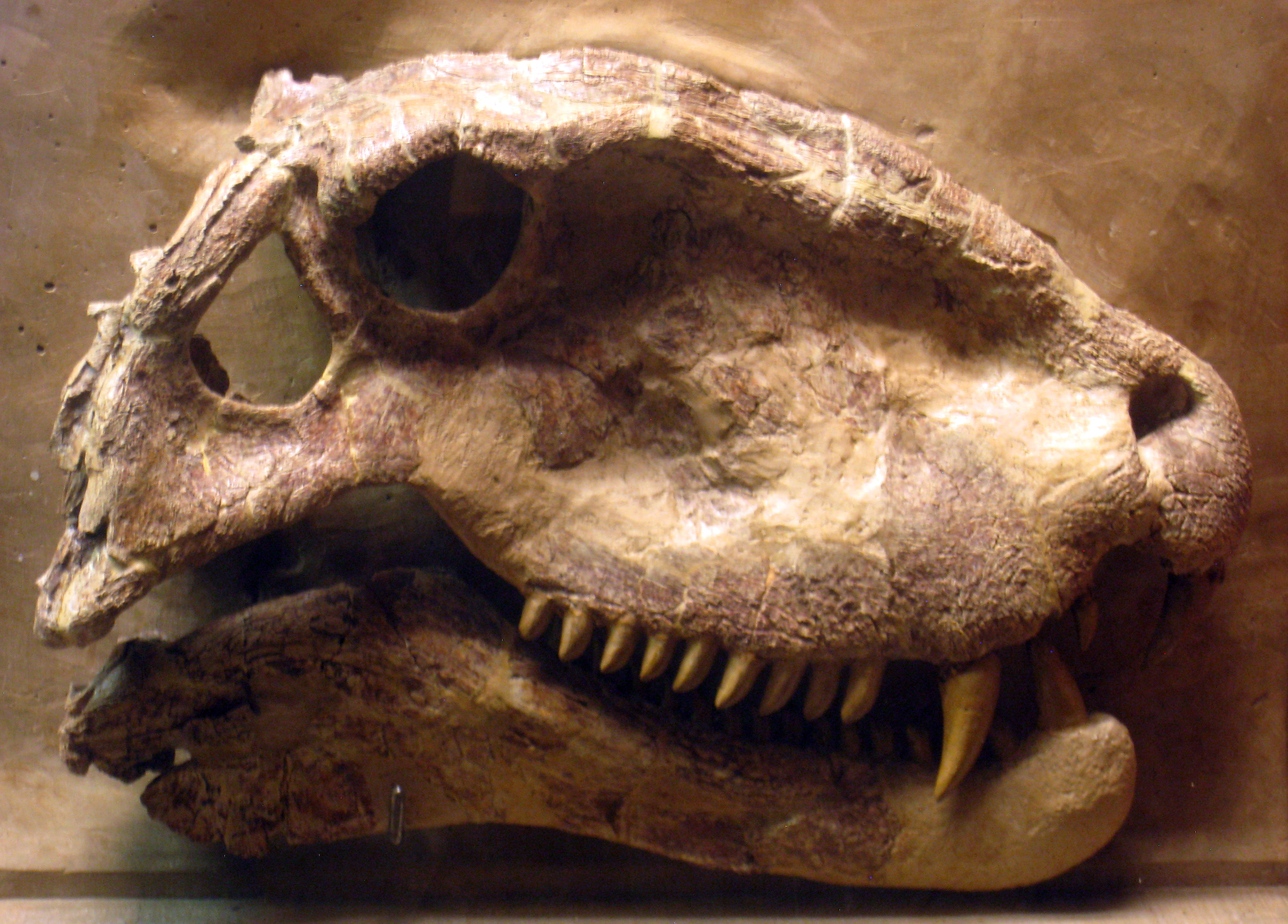 Dimetrodon grandis skull. Exhibit Museum of Natural History, University of Michigan, 1109 Geddes Avenue, Ann Arbor, Michigan, USA.